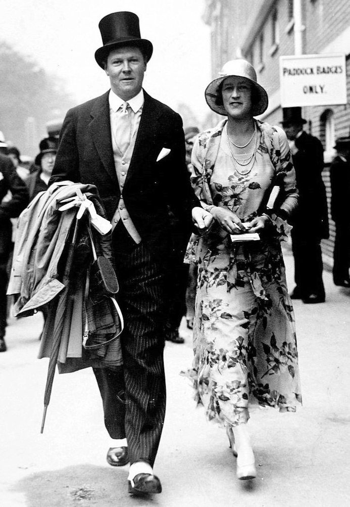 Sport, Cricket, 1930, England captain A,P,F, Chapman is pictured arriving for a day out at Royal Ascot (Horse Racing) accompanied by his wife